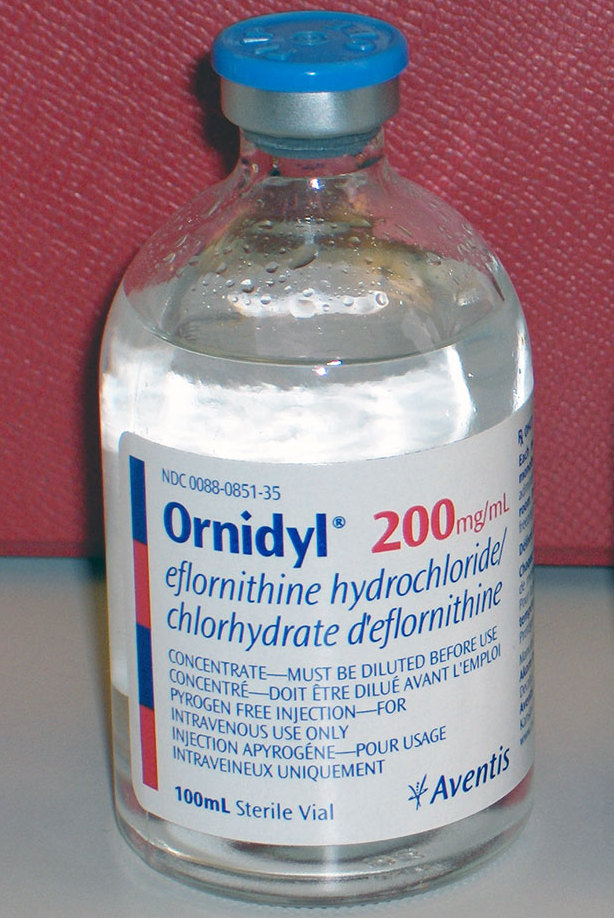 Image of nifurtimox and eflornithine